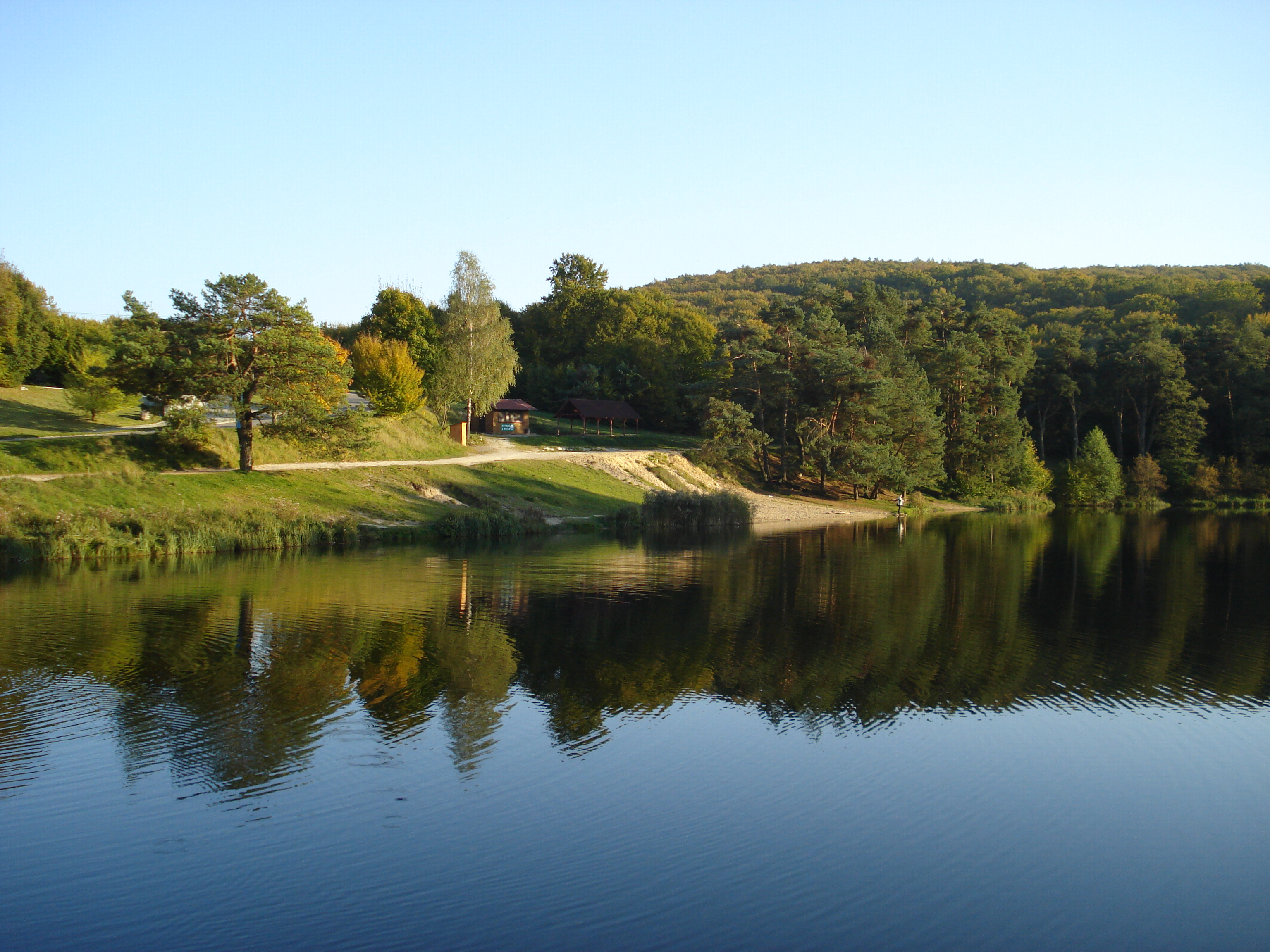 Pond "Amerykan" i Złoty Potok, Poland